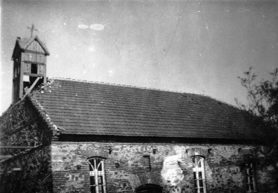 Church in Mrzenci, 1931 This media file is produced by Wikipedian in Residence in Category:Wikipedian in Residence at DARM in 2016.